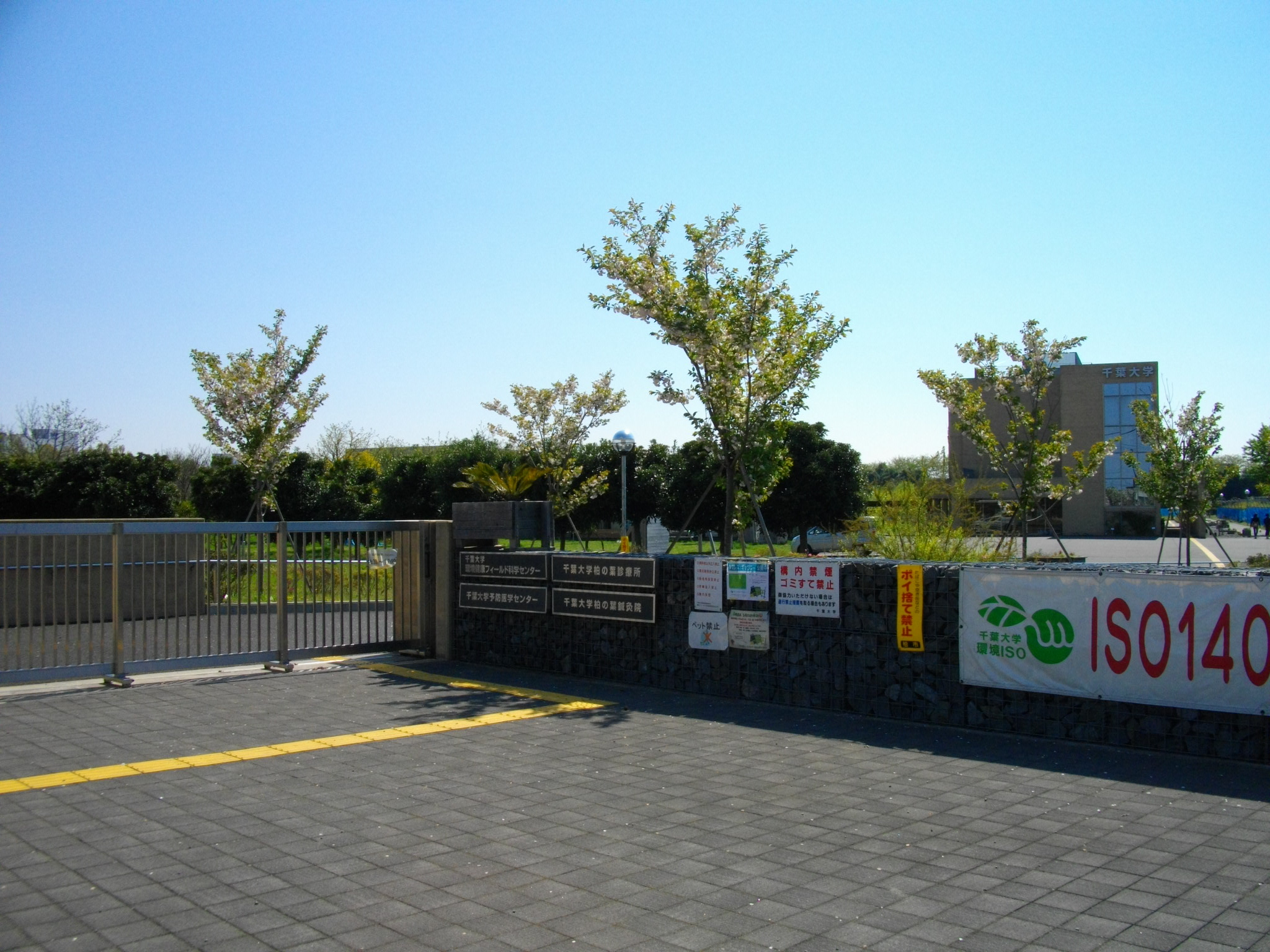 Chiba University Kashiwa-no-ha Campus